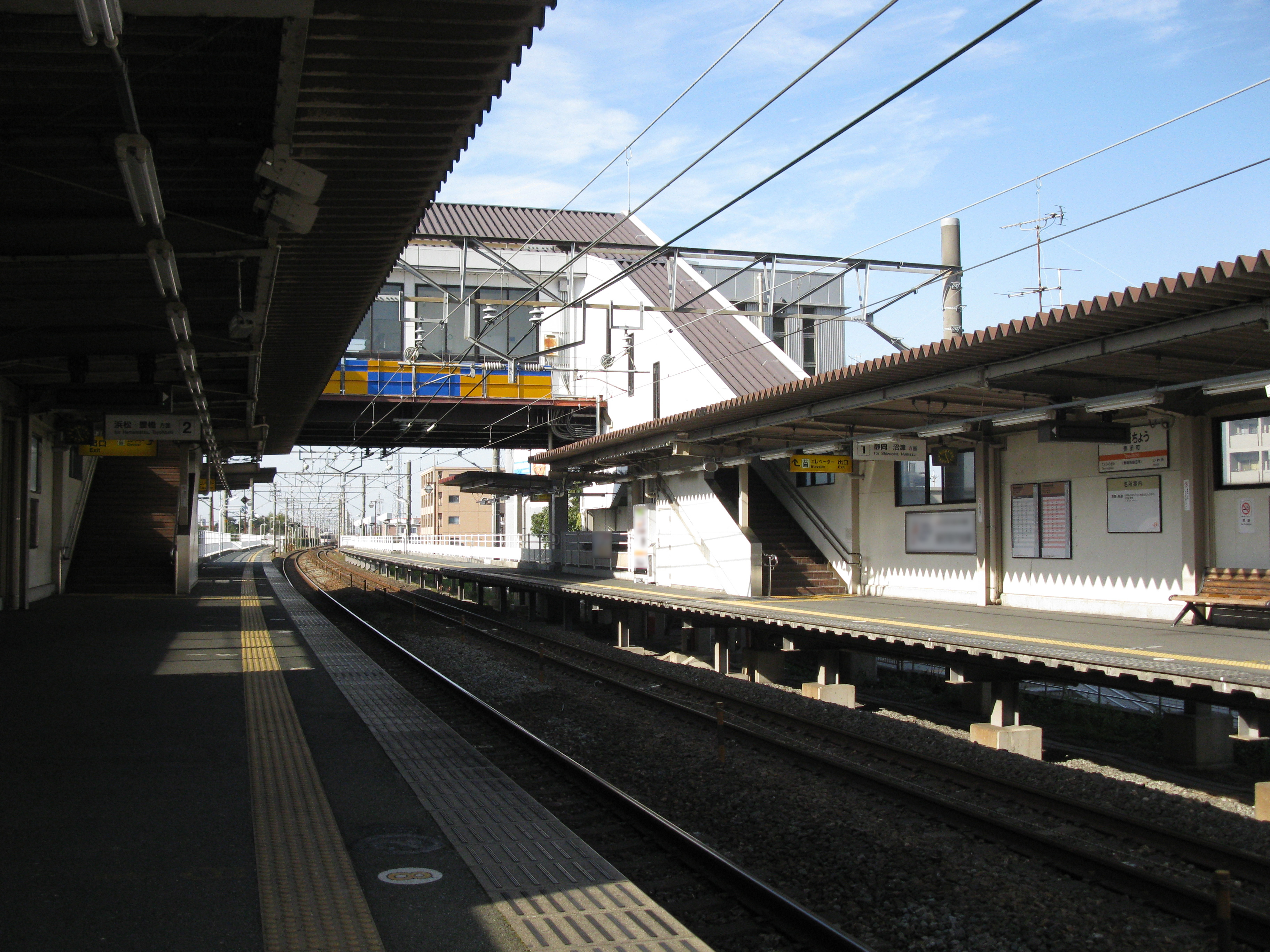 Toyodachō Station platform (Central Japan Railway(JR Central) Tōkaidō Main Line)